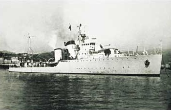 Turkish destroyer Adatepe